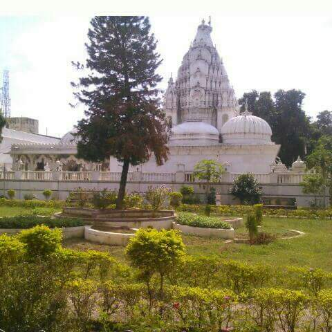 Mahaveer